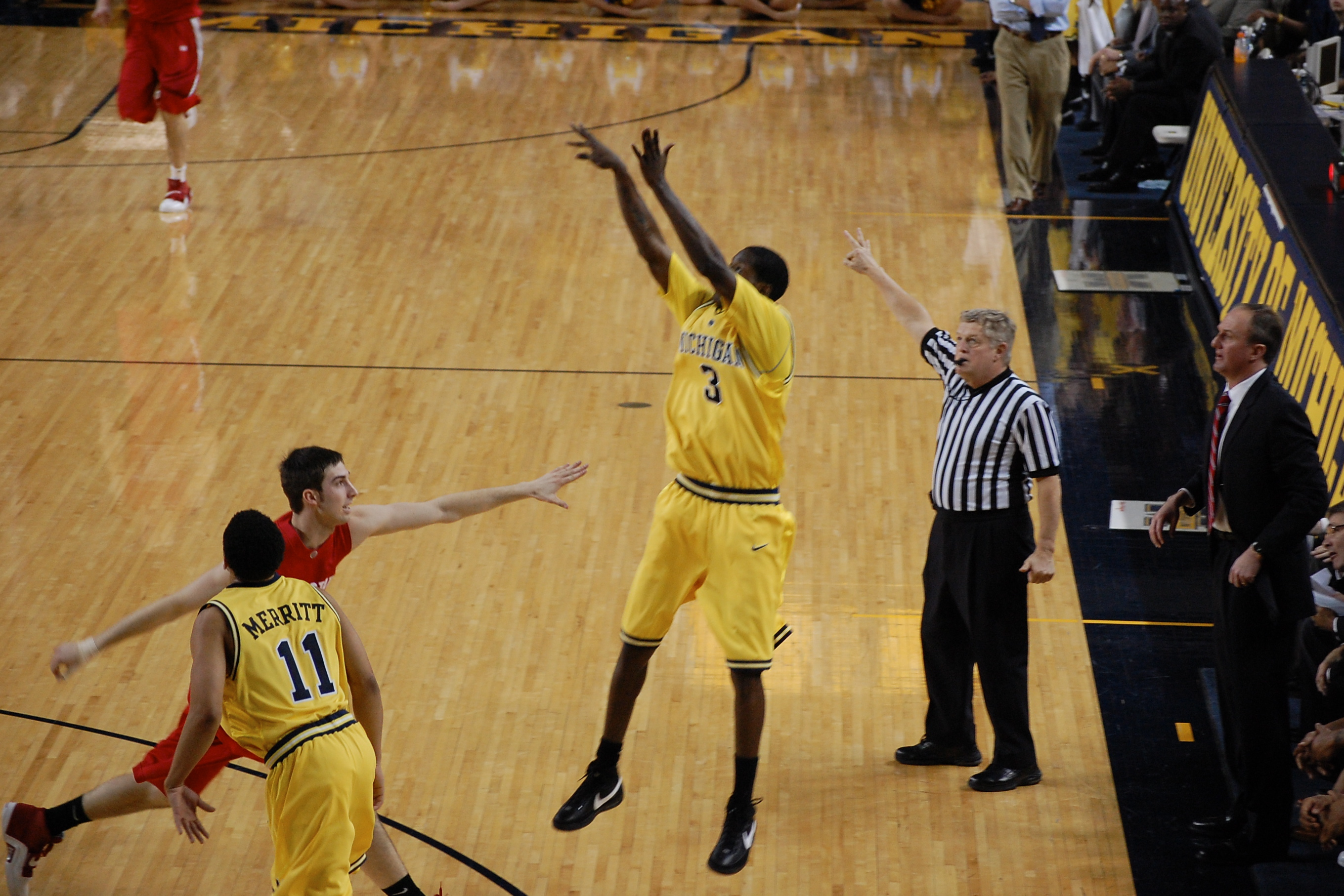 Manny Harris vs. Ohio State Buckeyes men's basketball